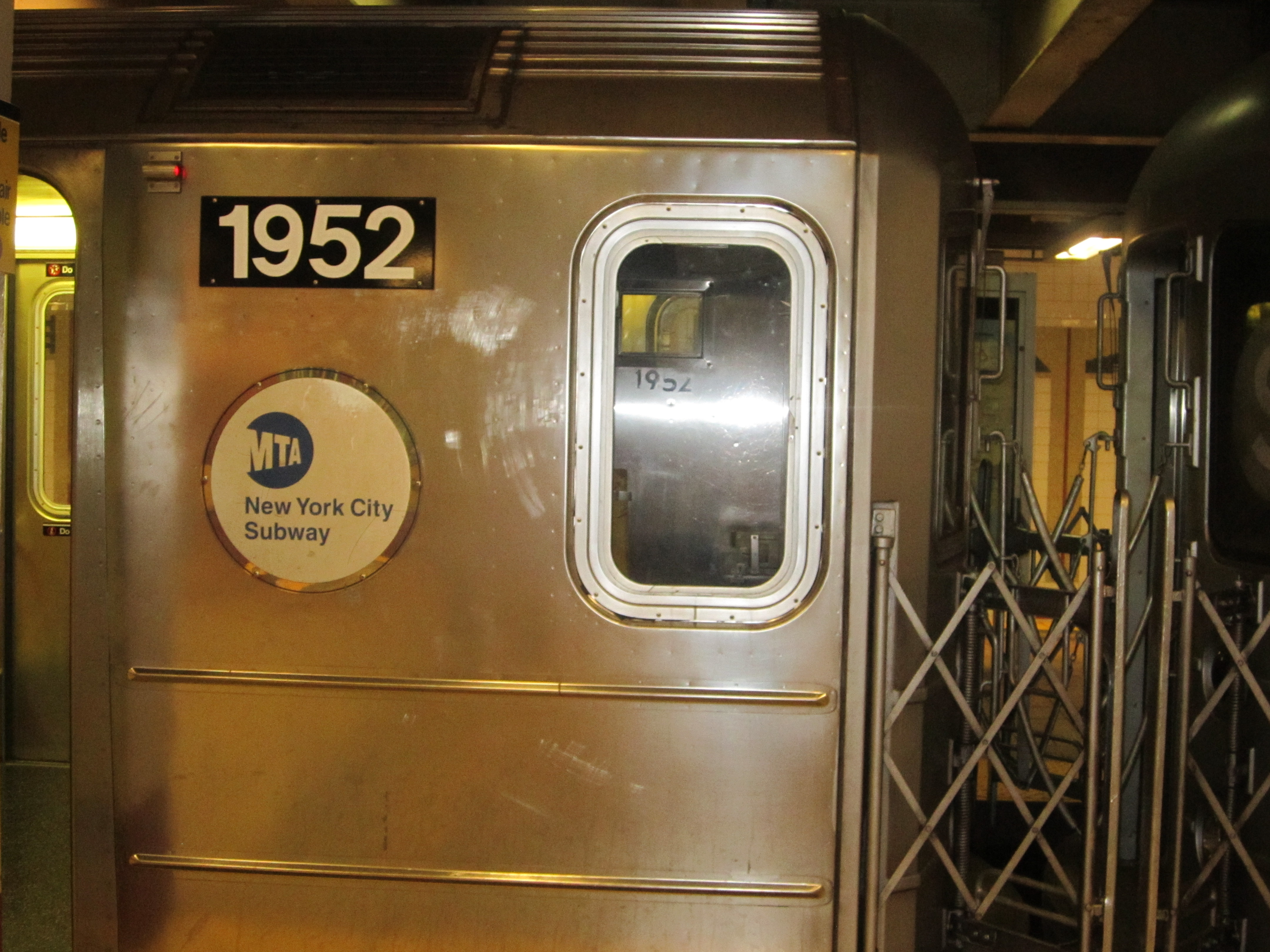 This is R62A car #1952 in service on the 42nd Street Shuttle.